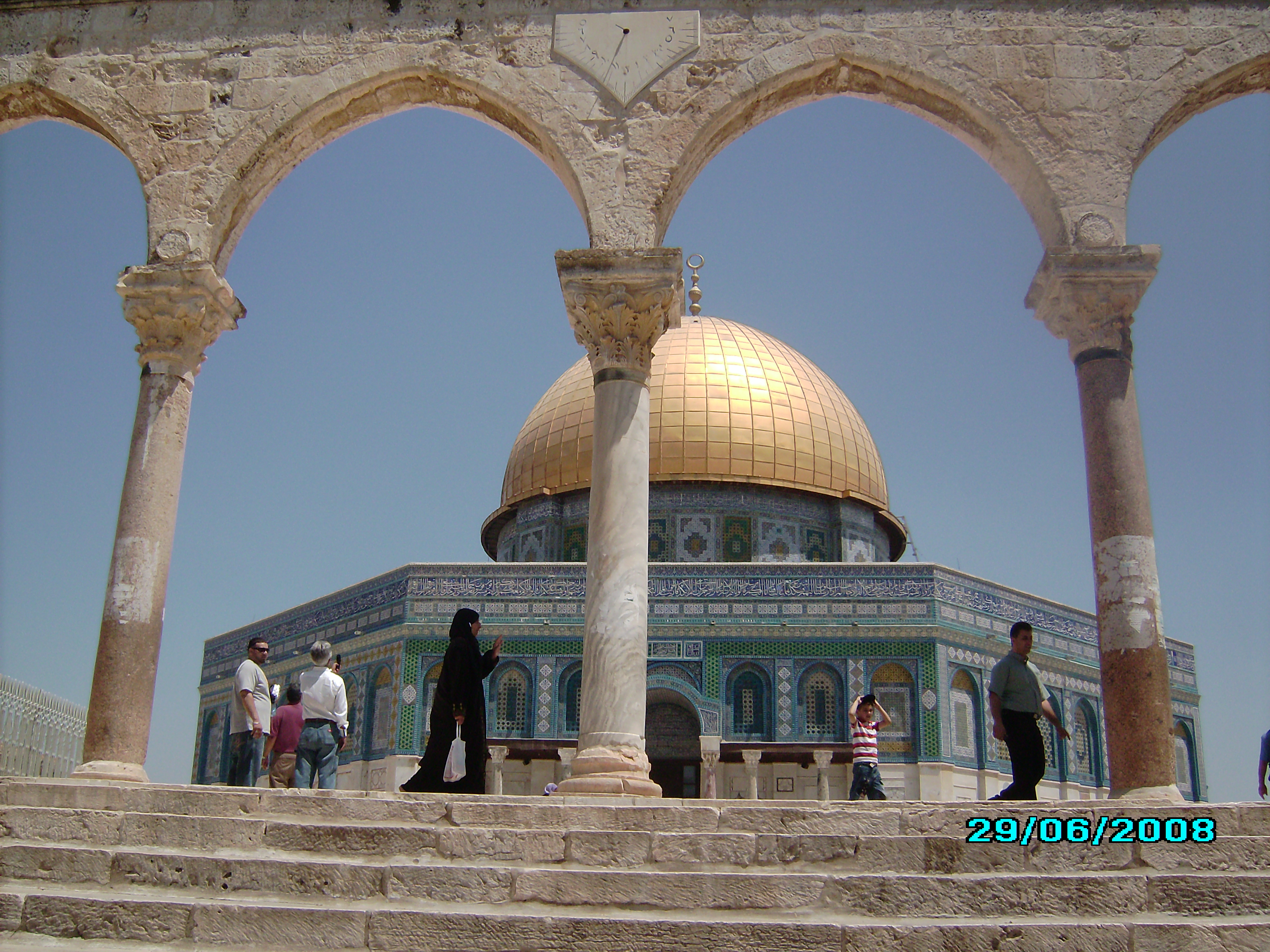 Al-Aqsa Mosque